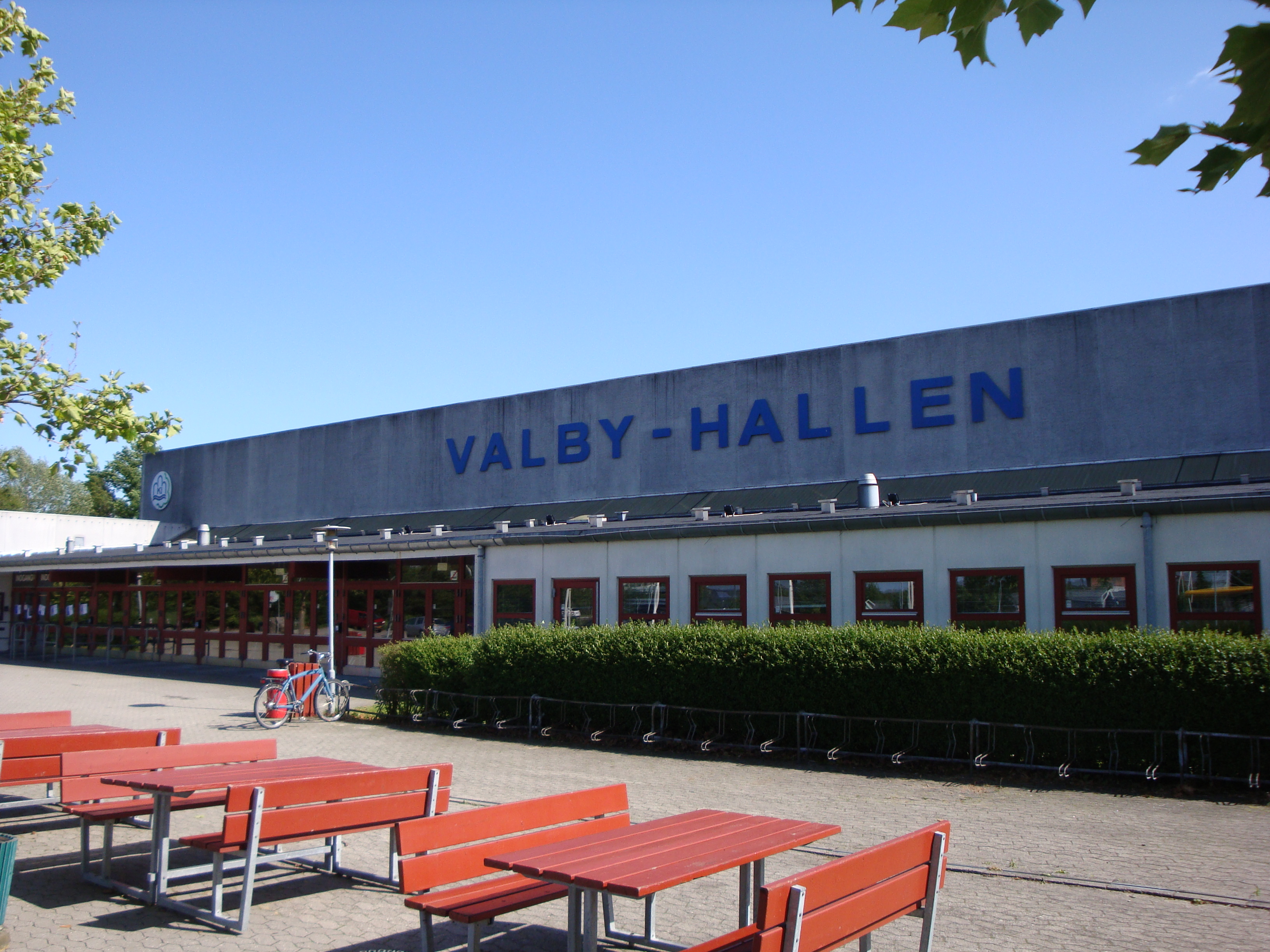 Valby-Hallen in Valby, Denmark. Used for concerts among other things.